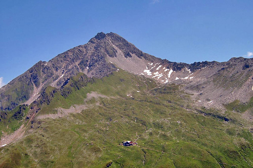 Ahornspitze peak, a mountain in the Zillertaler Alps; the Edelhütte hut below; the Popbergschneid bluff to the right